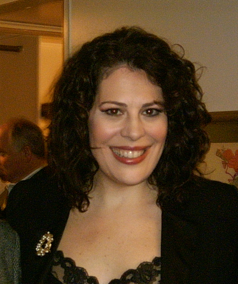 Cropped from an image taken by my mother, and released by her into the public domain for Wikipedia